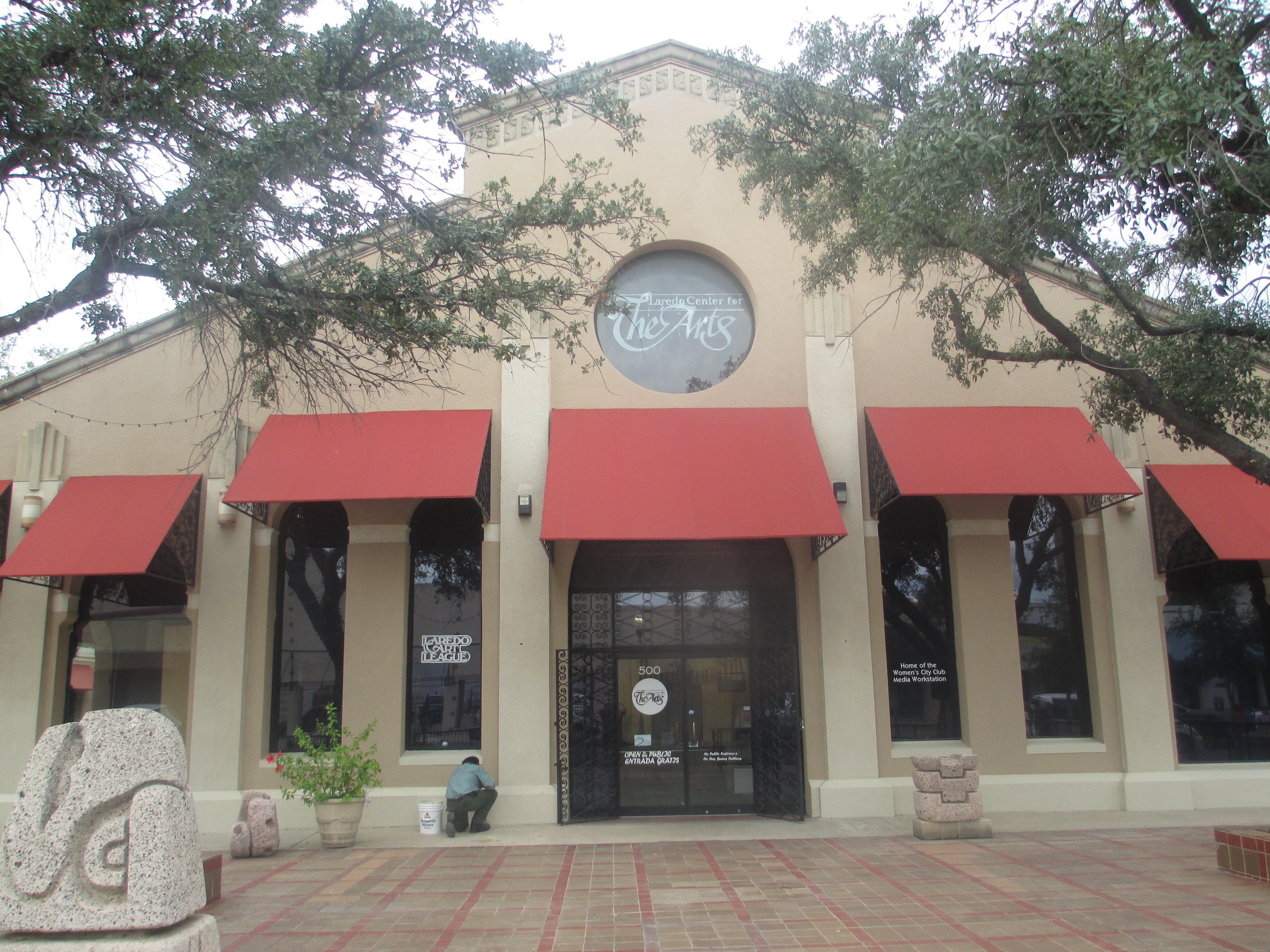 I took photo of Laredo Center of the Arts in Laredo, TX, with Canon camera.